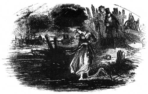 David Copperfield, The ominous River by Phiz